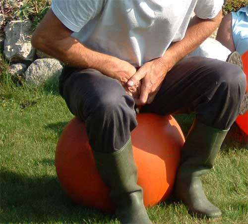 A skippyball.